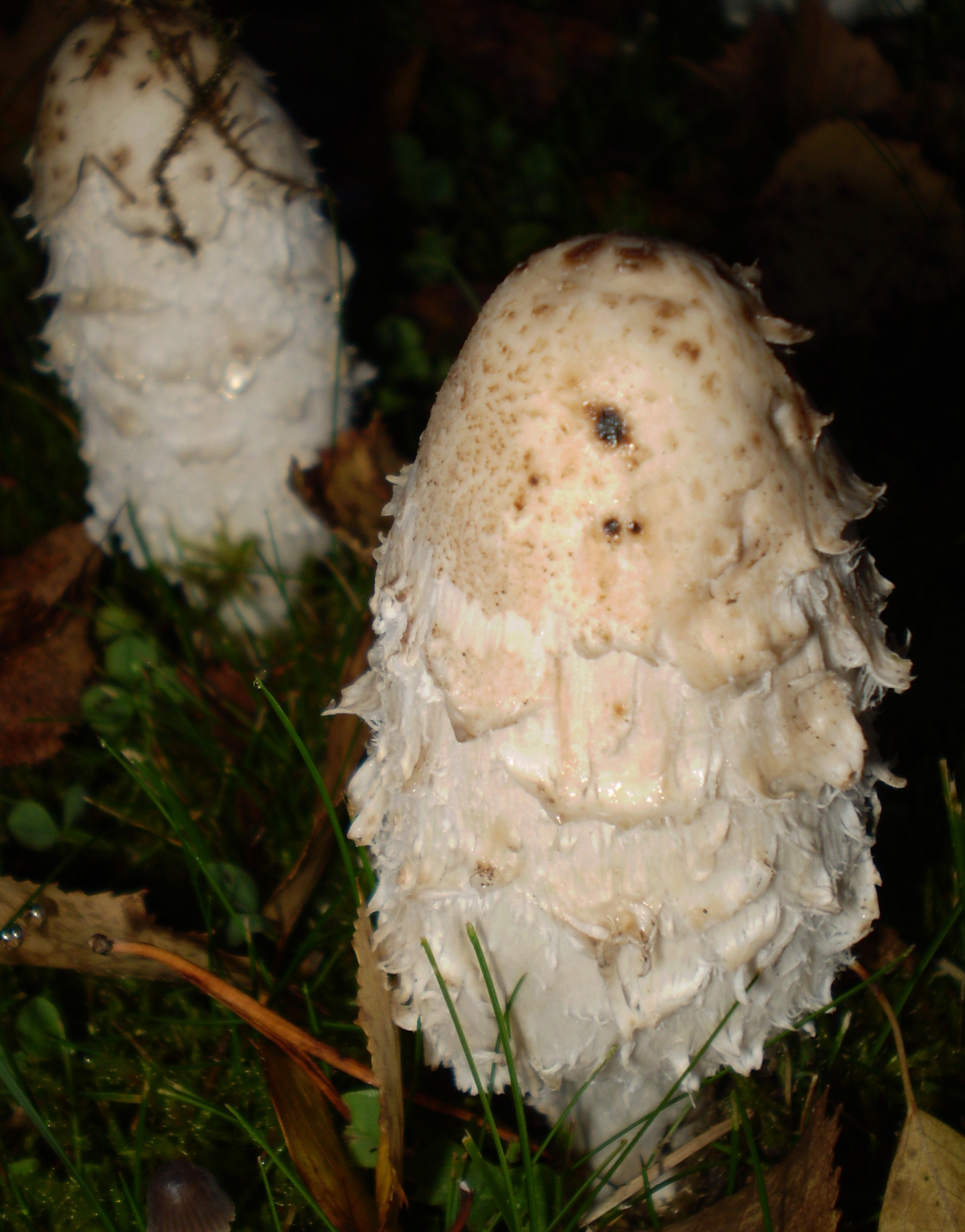 Coprinus comatus